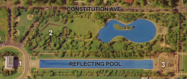 Map of Constitution Gardens, Washington, D.C.. 1) Lincoln Memorial; 2) Vietnam War Memorial; 3) World War II Memorial (then-under construction).